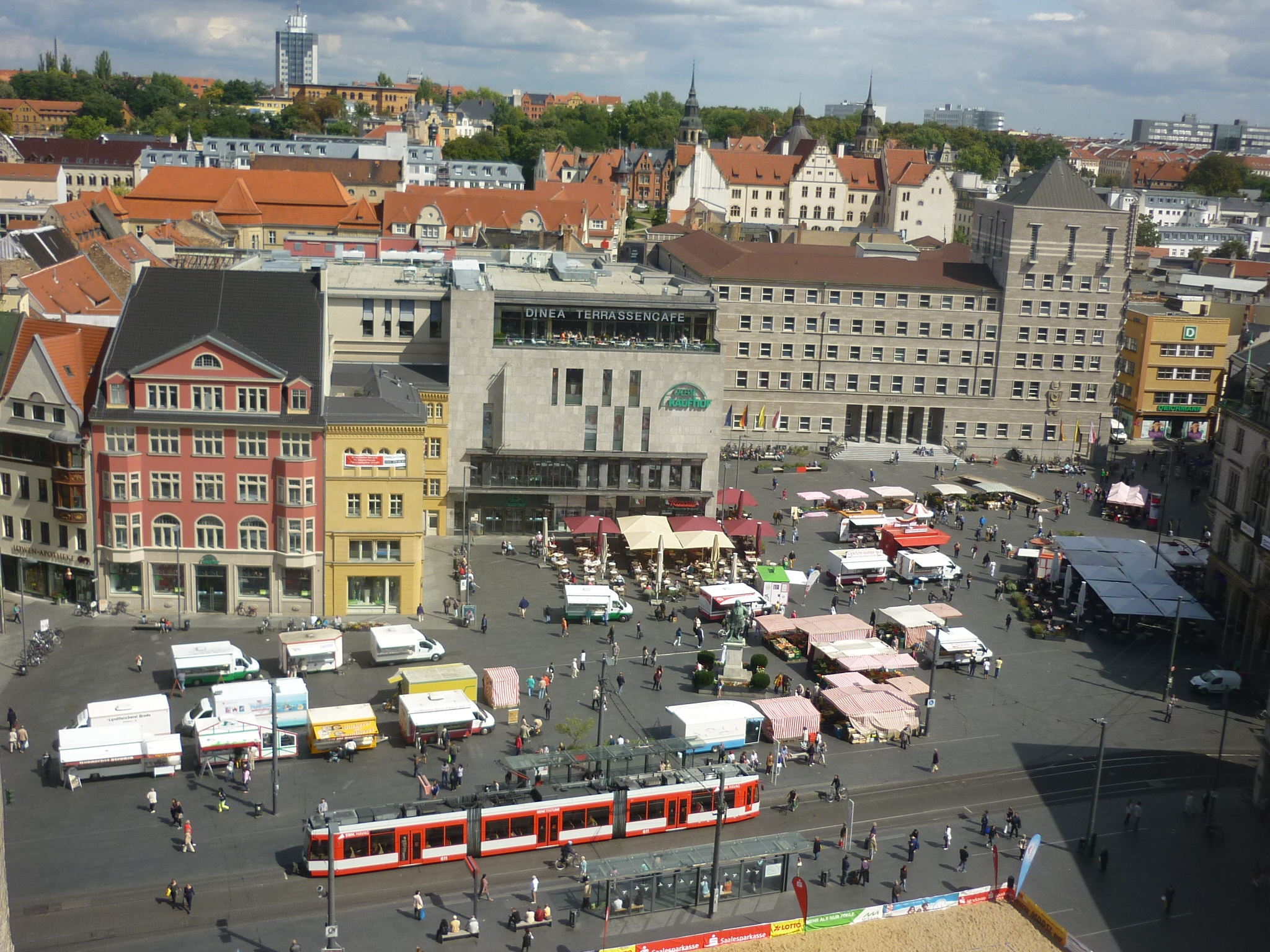 Market place Halle from above